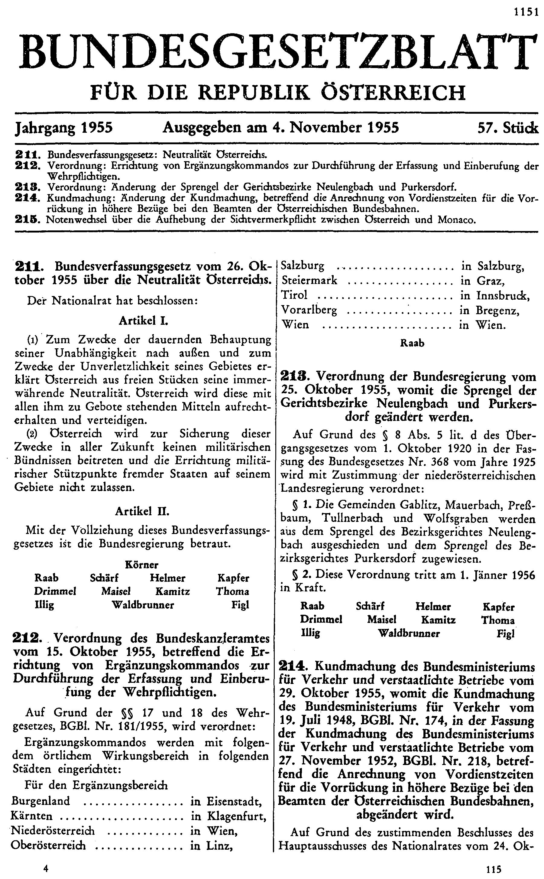 This is a scan of the historical document